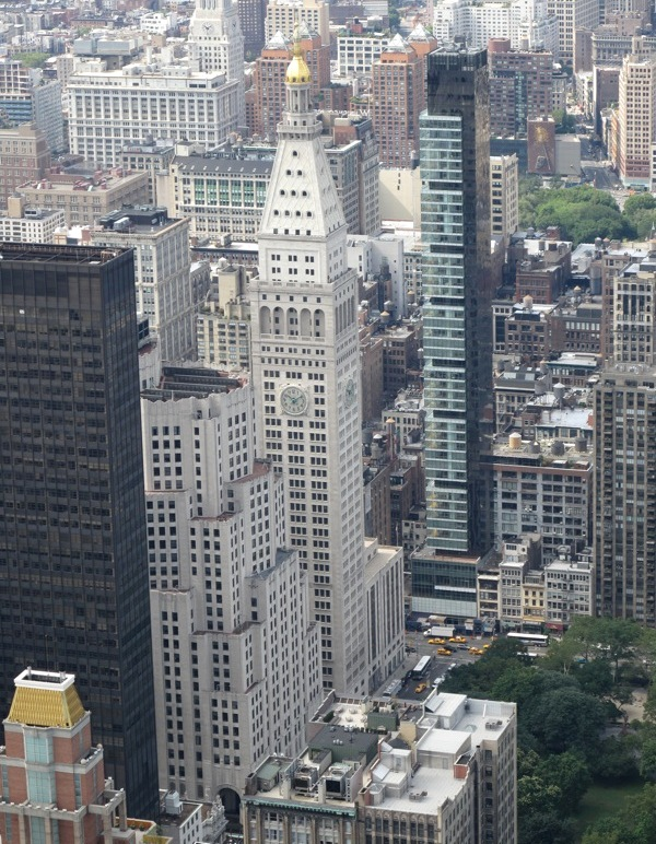 One Madison Park and Metropolitan Life Insurance Company Tower near Madison Square Park in New York City.